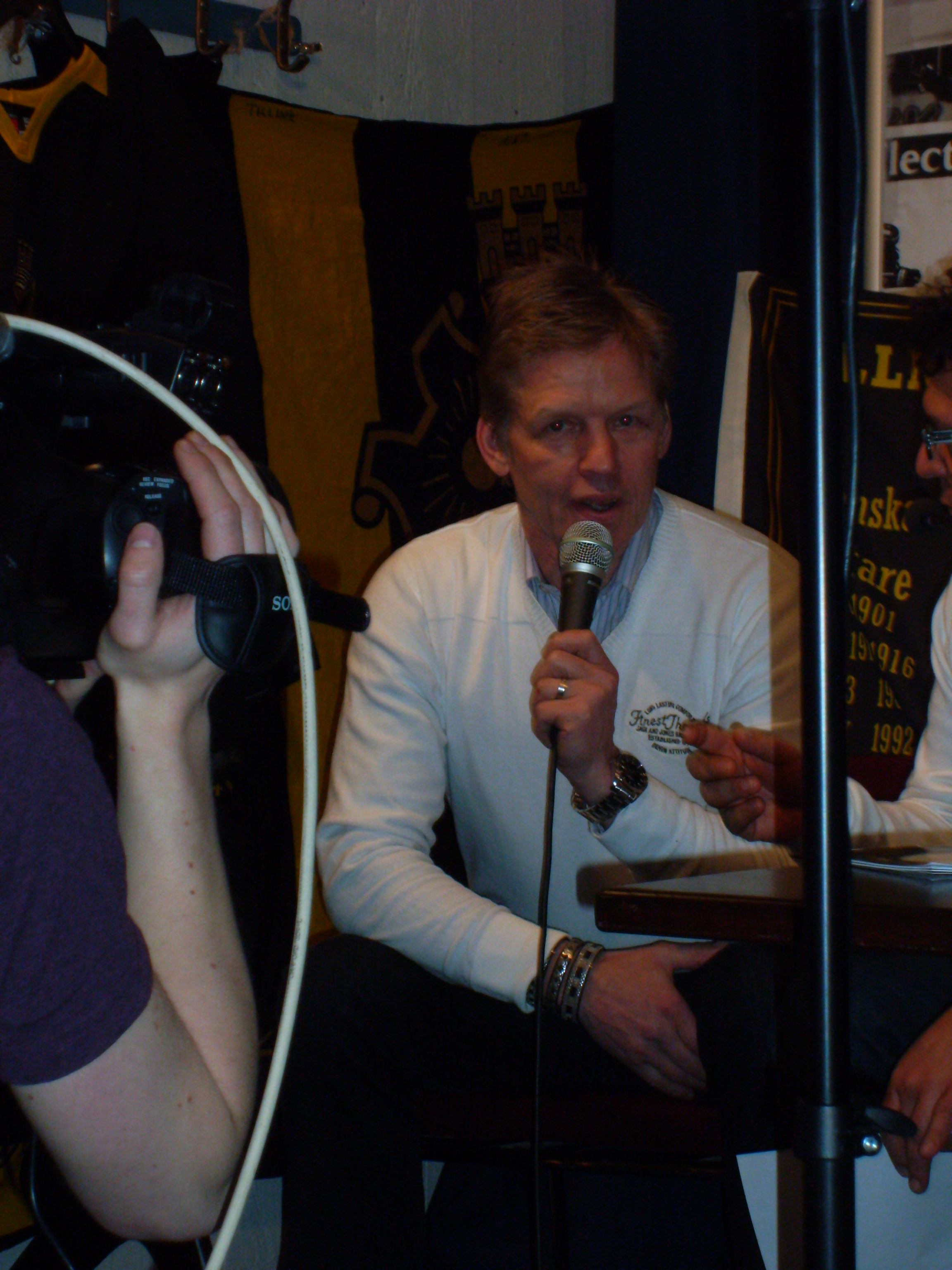 Peter Gradin, former Swedish ice hockey player.